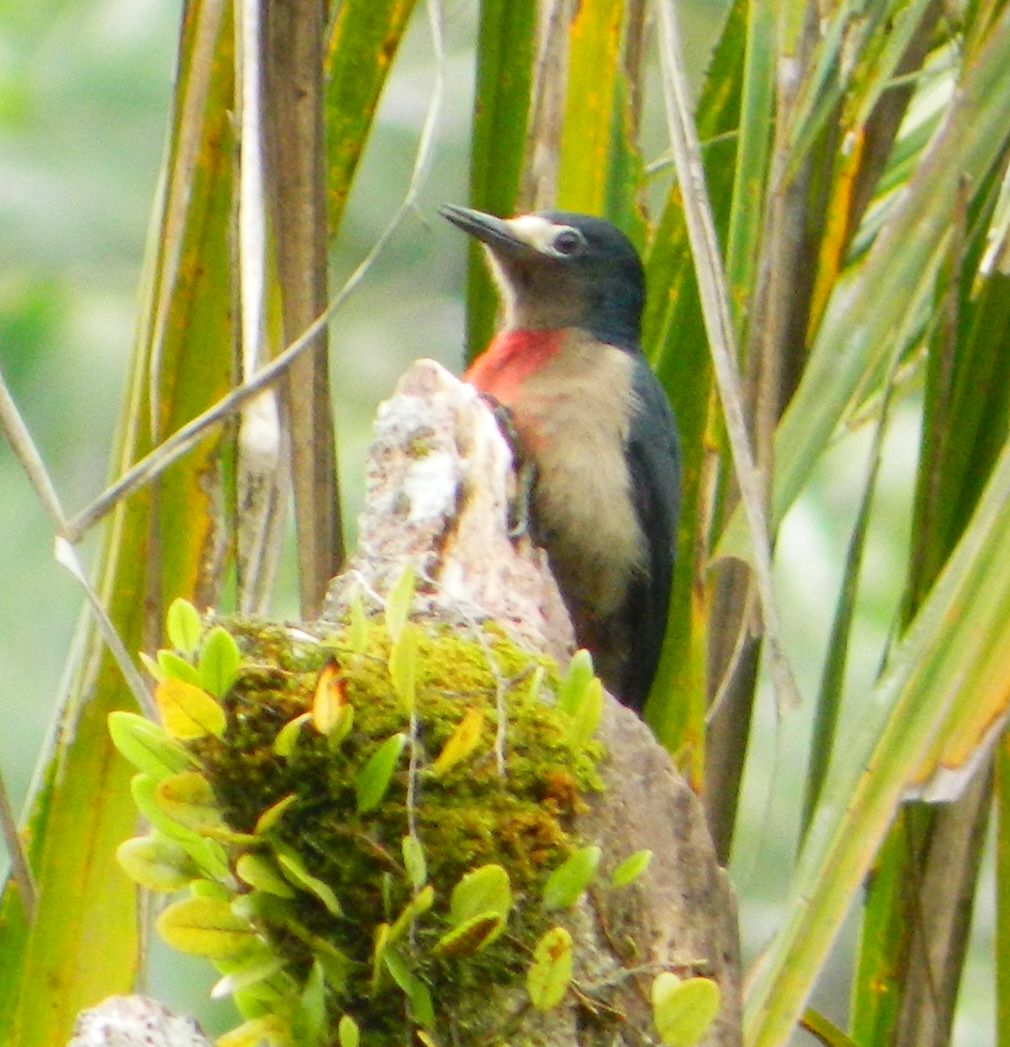 Puerto Rican Woodpecker in El Yunque National Forest